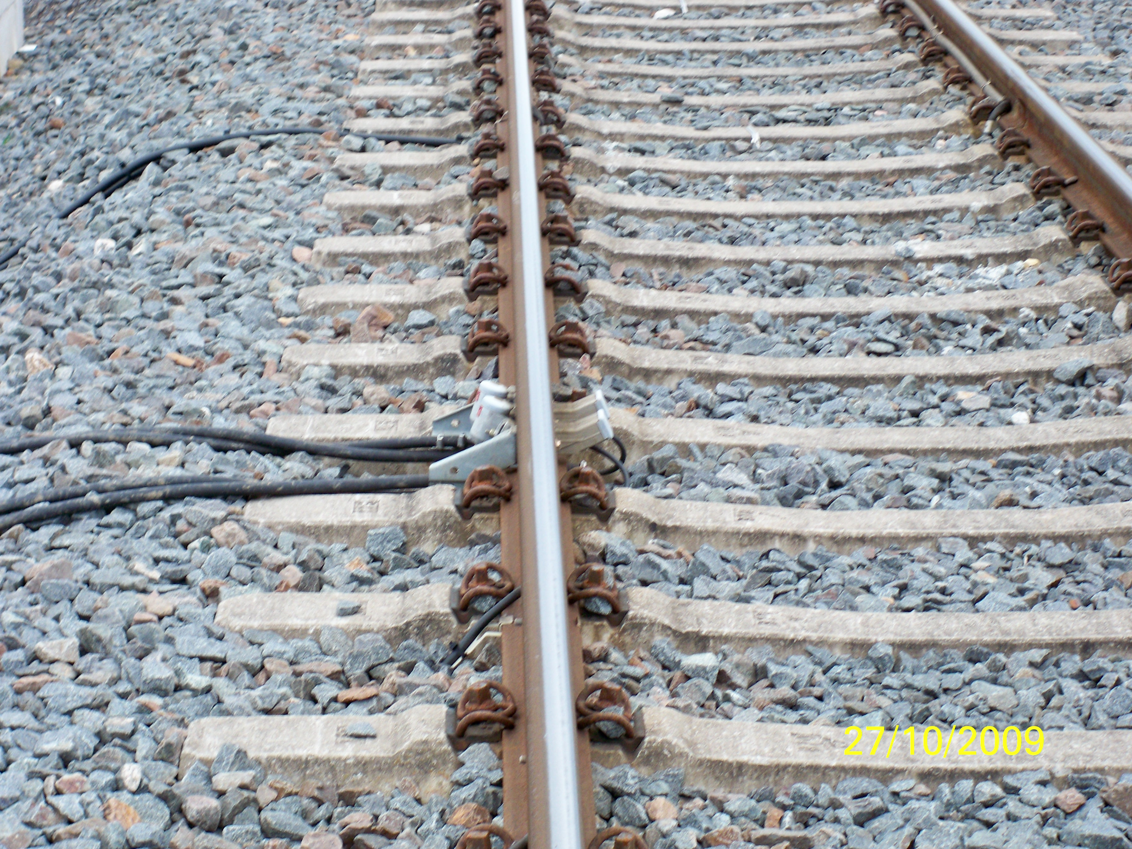 Thales wheel sensor mounted.